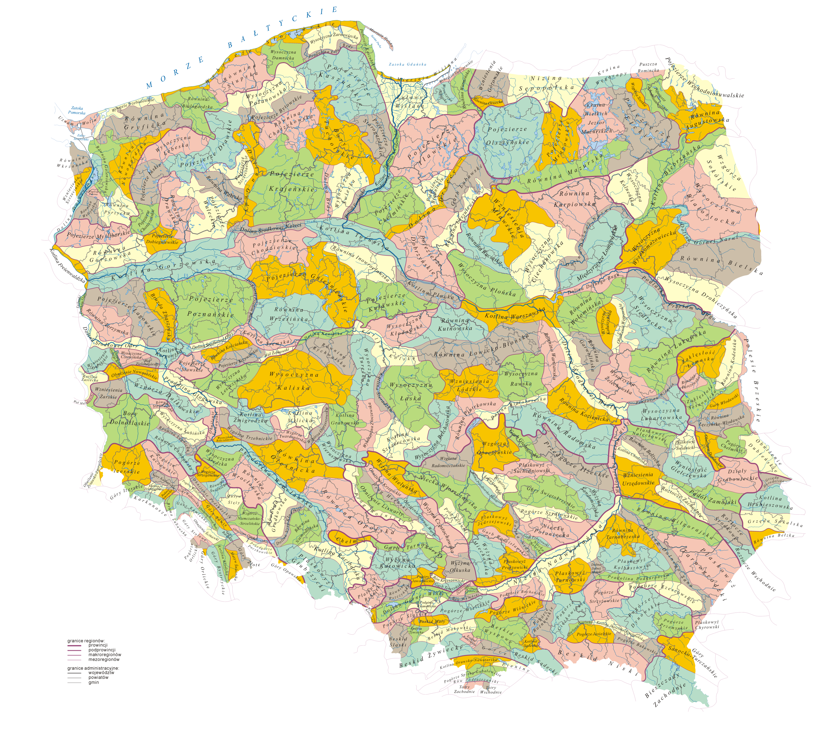 Poland: Physico-geographical mezoregions of Poland overlaid with the administrative division